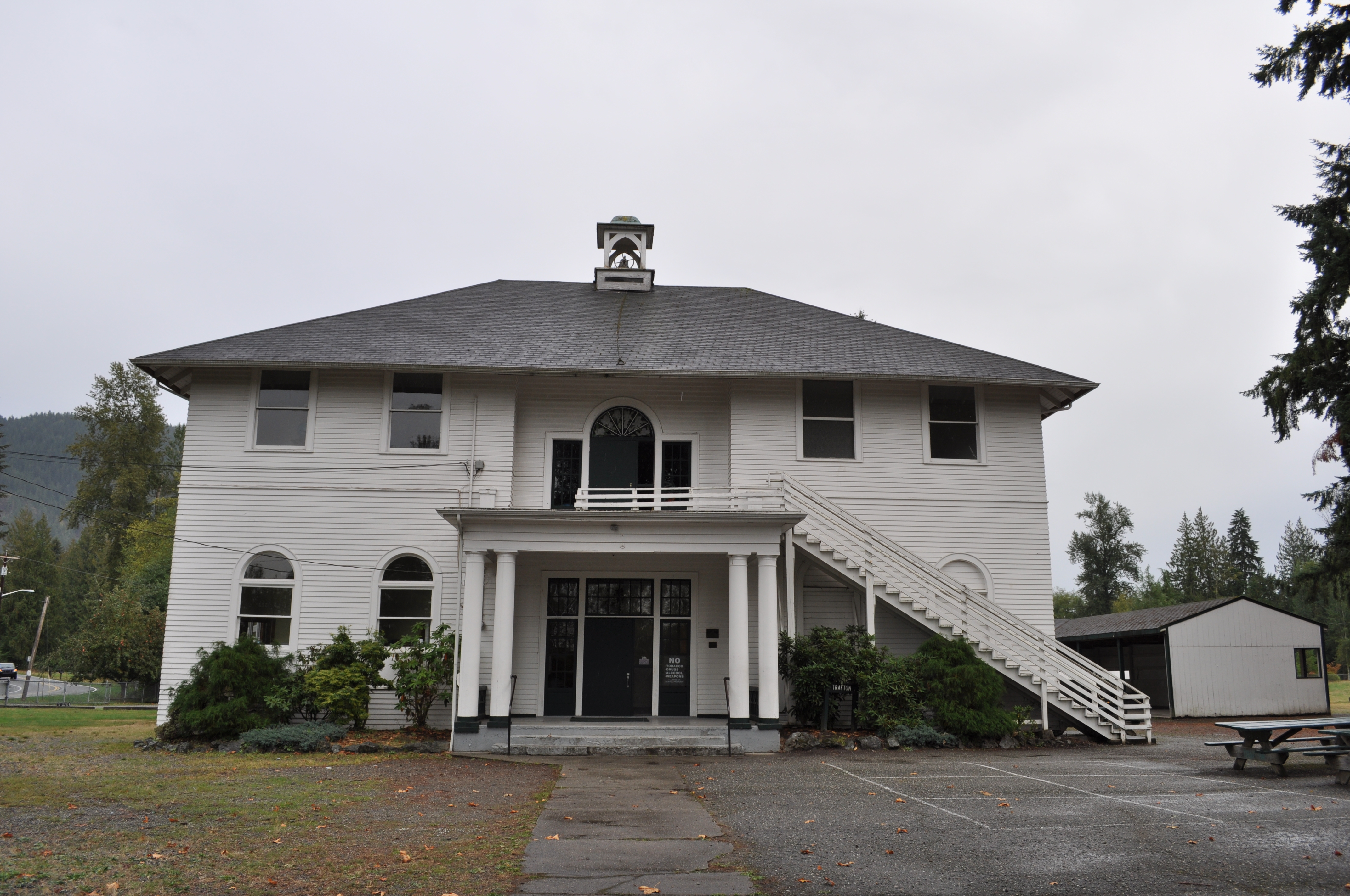 Trafton School, 12616 Jim Creek Rd., in the rural community of Trafton, now part of Arlington, Washington, USA. Listed on the National Register of Historic Places